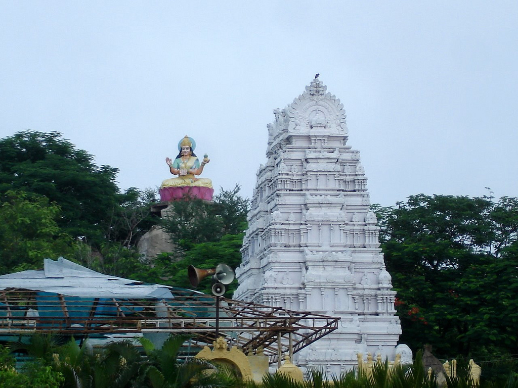 Basar Temple view in Adilabad district